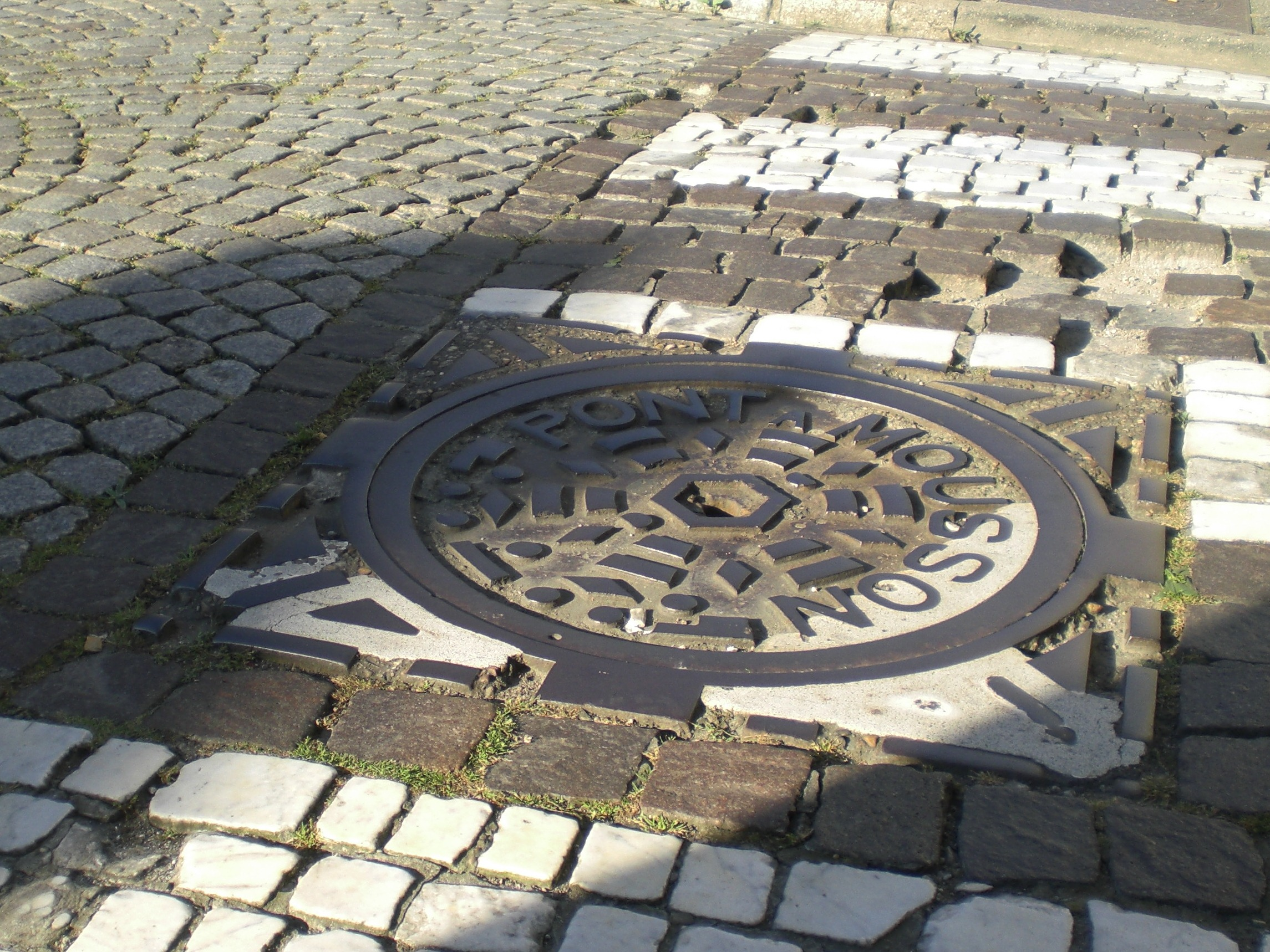 Manhole cover in Pont-à-Mousson